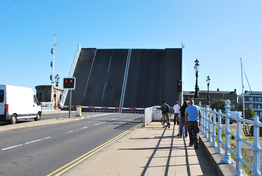 Haven Bridge in Great Yarmouth lifted into position to allow boats to pass underneath.